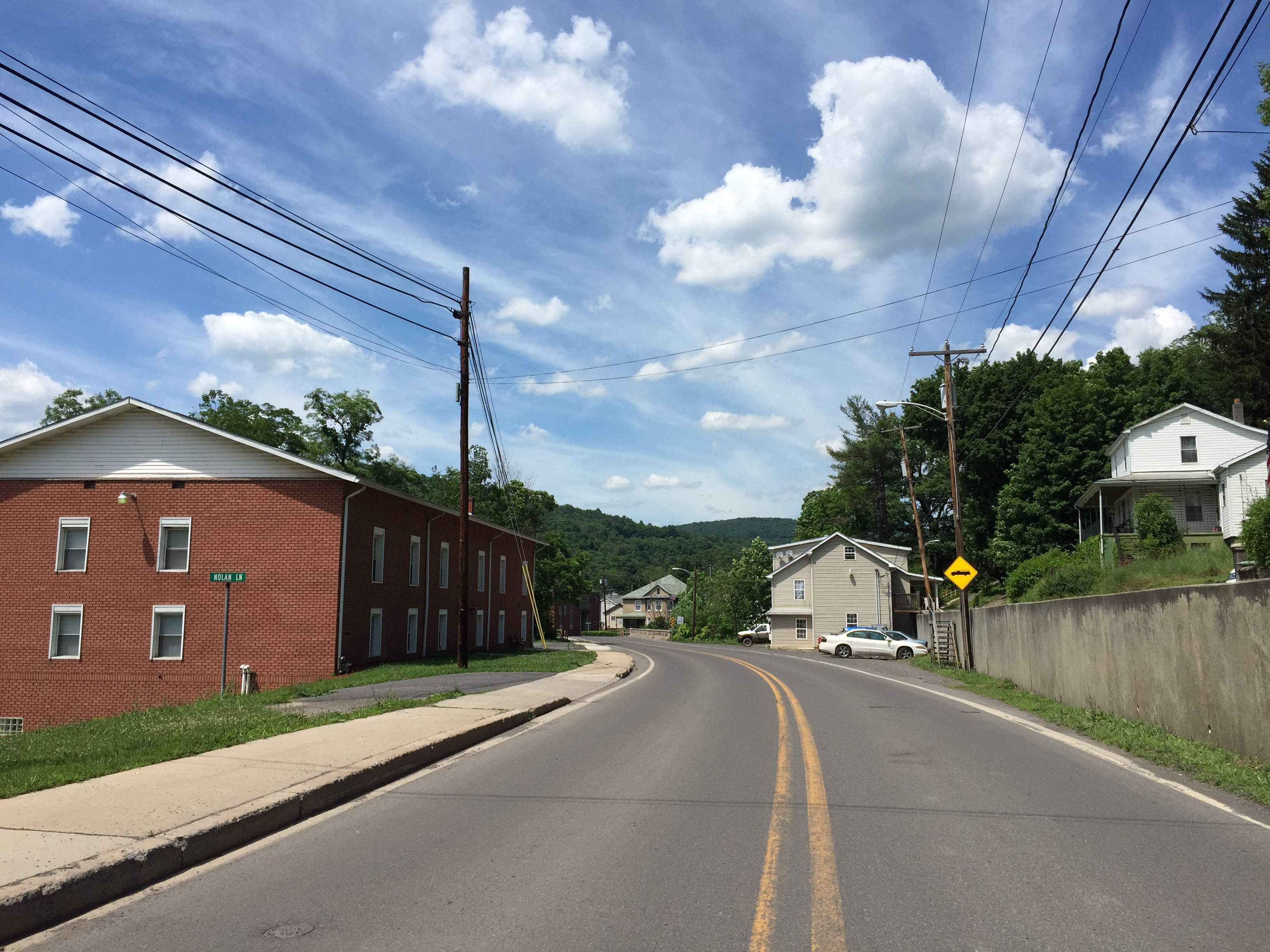 View north along Maryland State Route 935 (Legislative Road) between Potomac Hollow Road and Water Street in Barton, Allegany County, Maryland